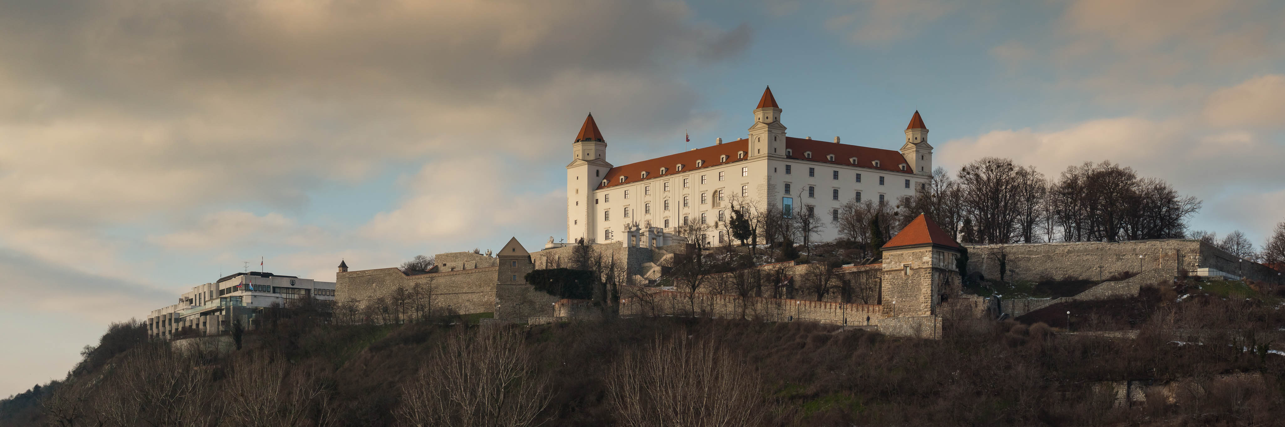 Bratislava Castle Panorama